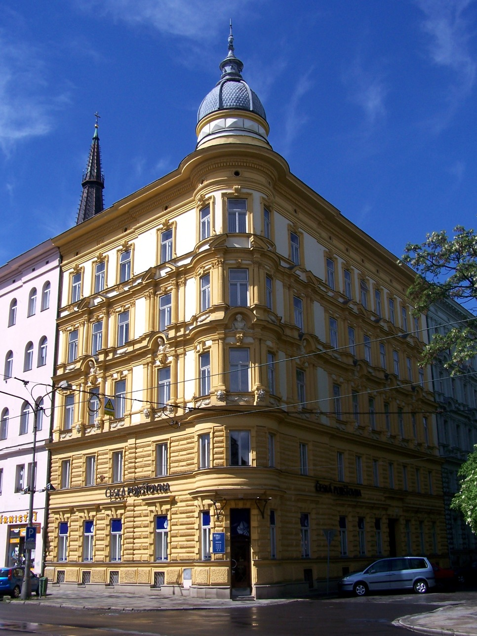 Neorenaissance architecture in Olomouc, The Czech Republic